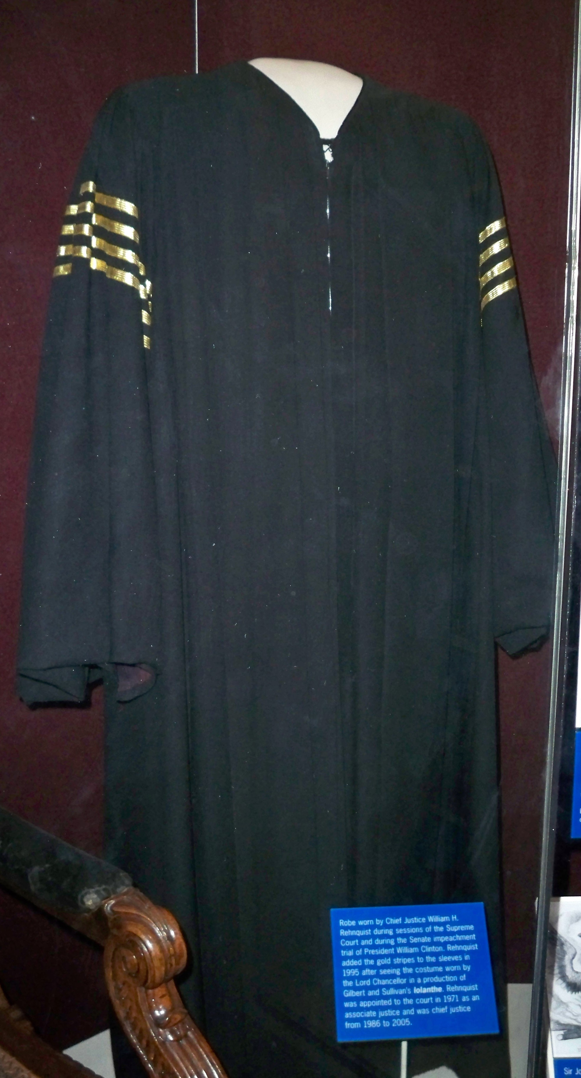 The robe worn by Chief Justice William Rehnquist during President William Jefferson Clinton's impeachment trial at the Smithsonian National Museum of American History.